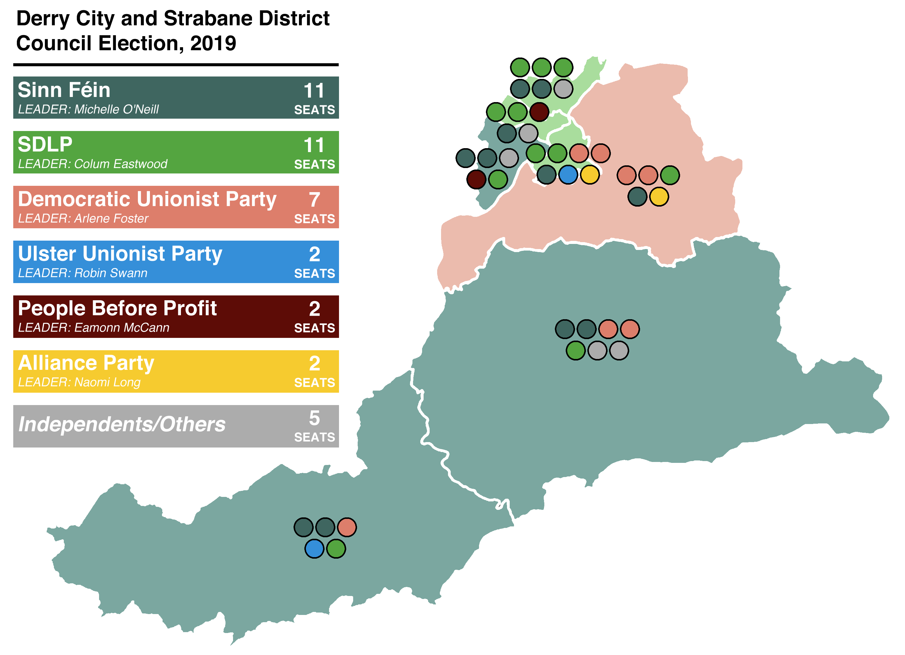 Map of results of the local election to Derry City and Strabane District Council in 2019.